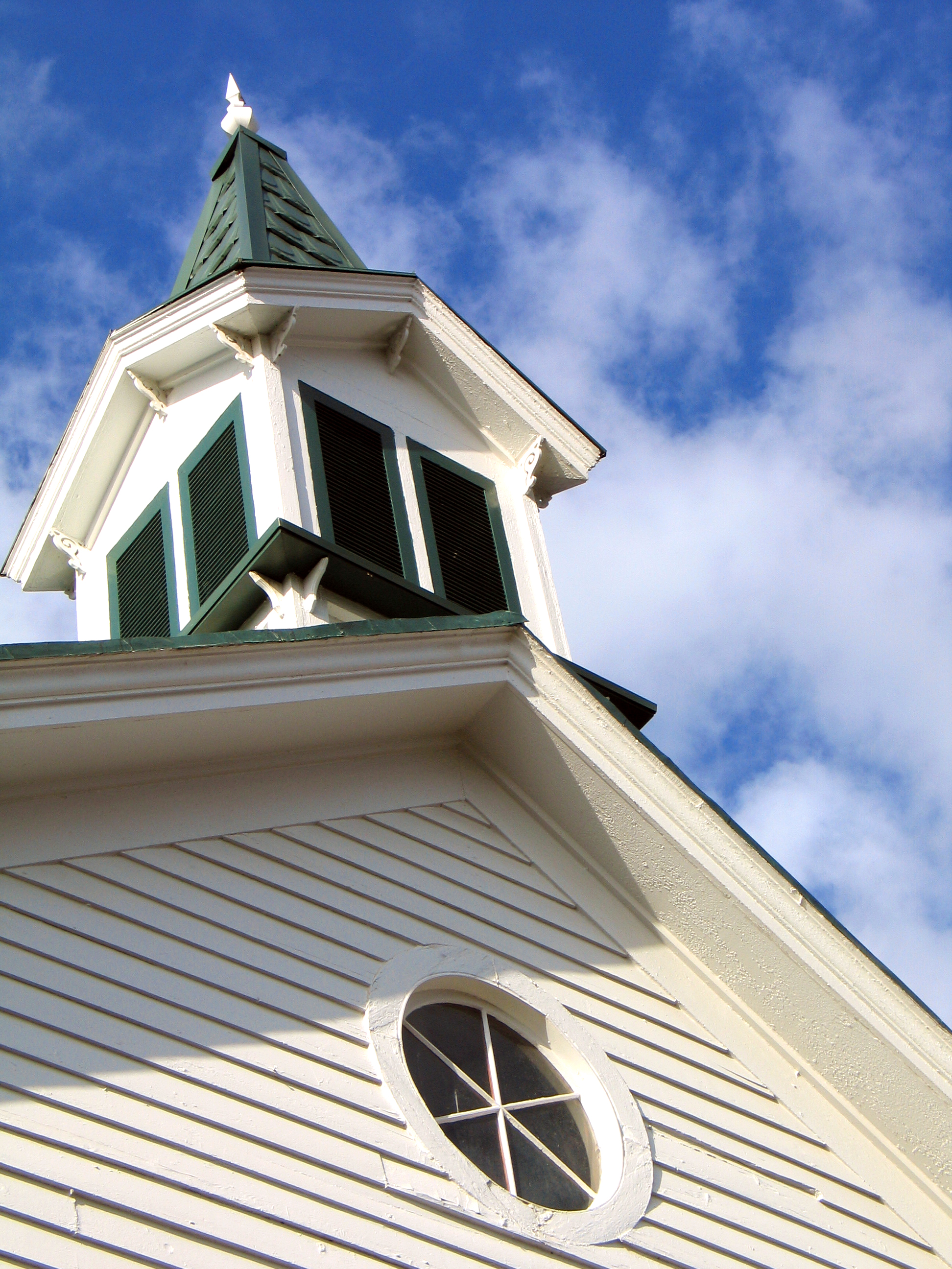 Spire of the Haymarket Museum (ca. 1883), at the corner of Washington Street and Fayette Street in Haymarket, Virginia.